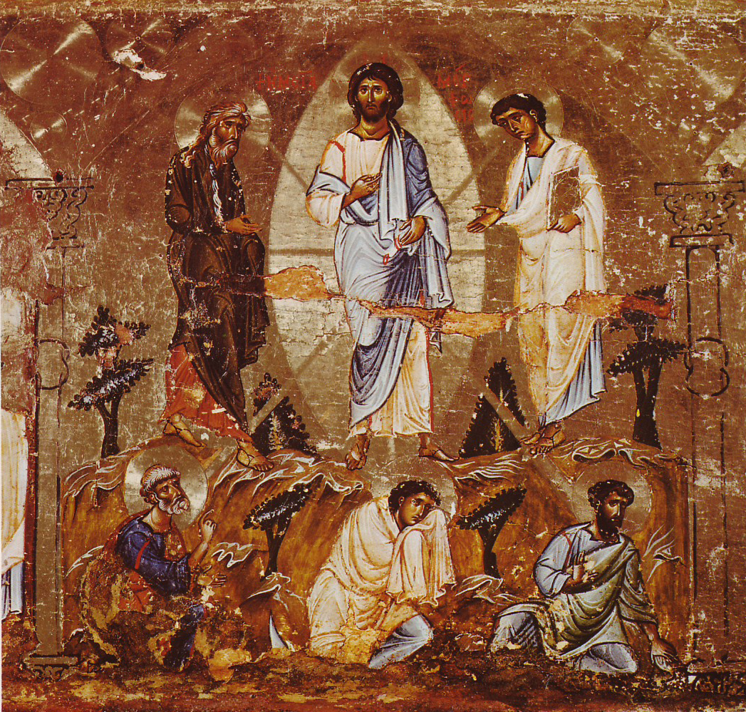 The Transfiguration of Christ: Part of an iconostasis in Constantinople style. Middle of the 12th century. 41.5 x 159 cm